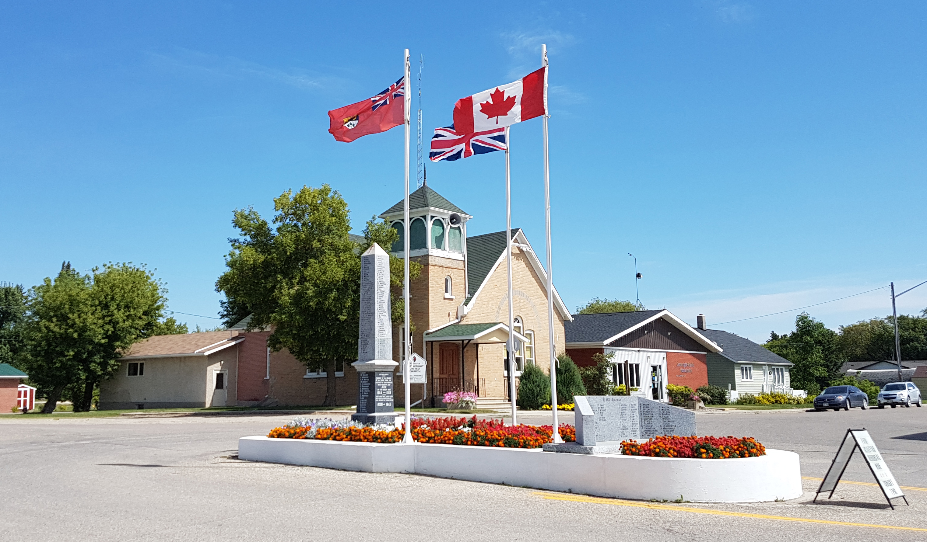 A view of Cartwright Manitoba, with the war cenotaph and flags in the foreground.